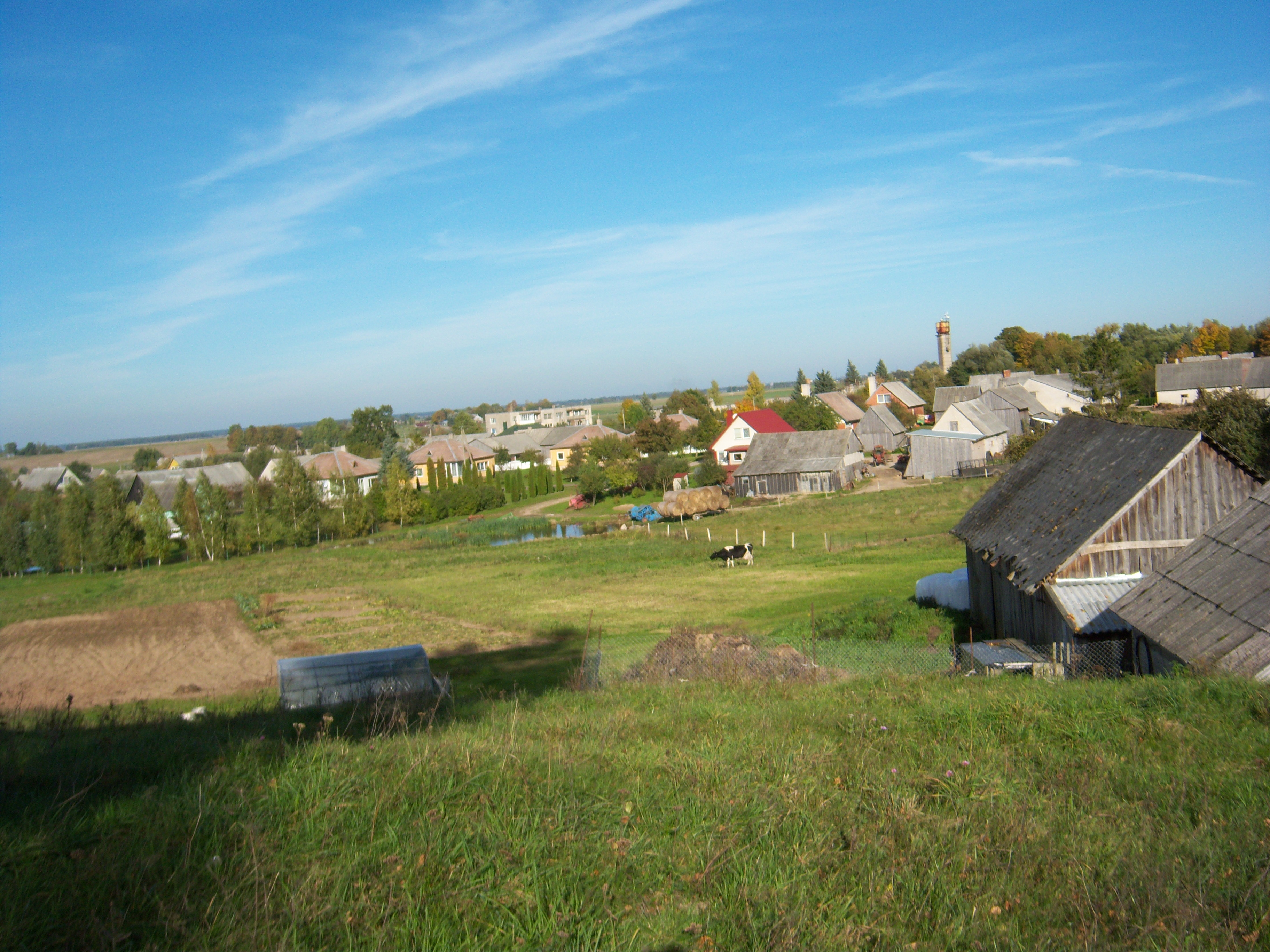 Valavičiai, Marijampolė District, Lithuania